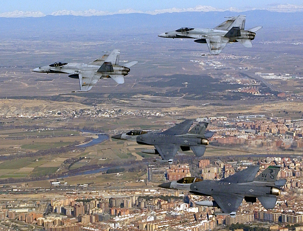 Two US Air Force (USAF) F-16 Fighting Falcon aircraft from the 510th Fighter Squadron, Aviano AB Italy, and two Spanish Air Force EF-18 Hornet aircraft in flight near Zaragoza AB, Spain.